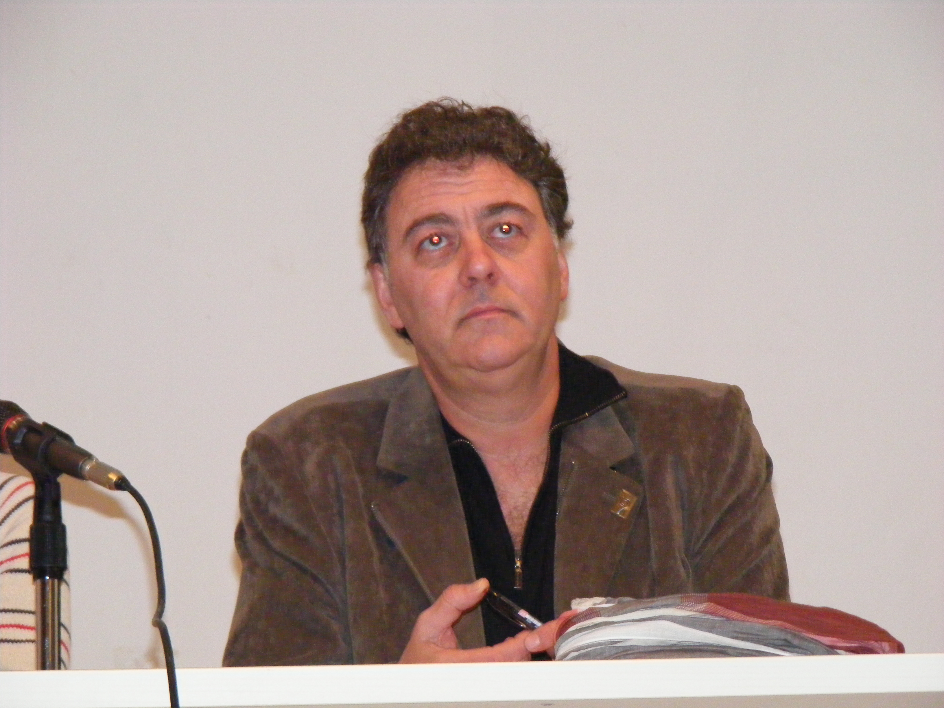 Manuel Portas Galician and Spanish writer in a talk to students of IES A Sangriña en A Guarda, Pontevedra, Galician, Spain.